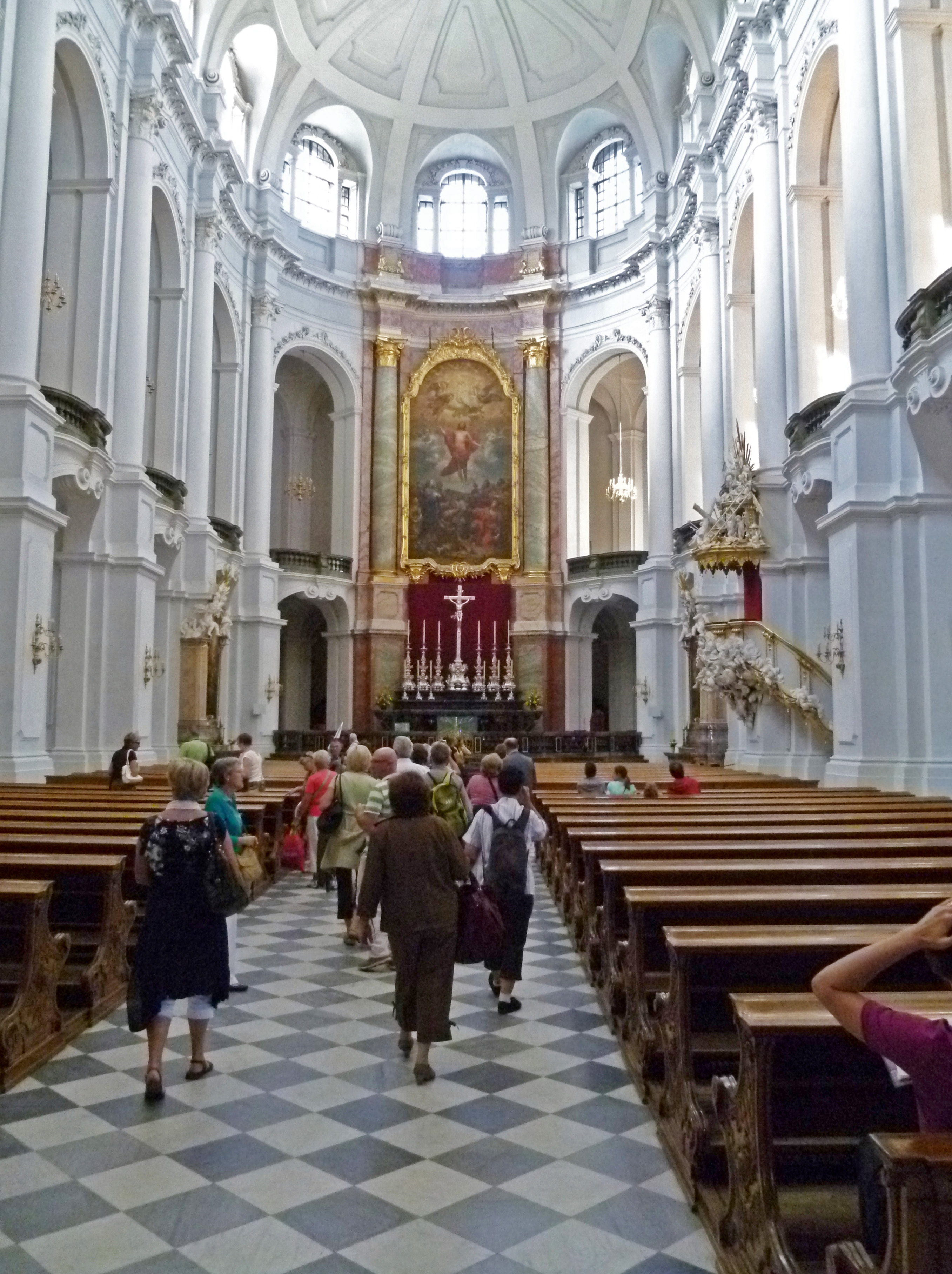 Nave of the Katholische Hofkirche, Dresden, Germany